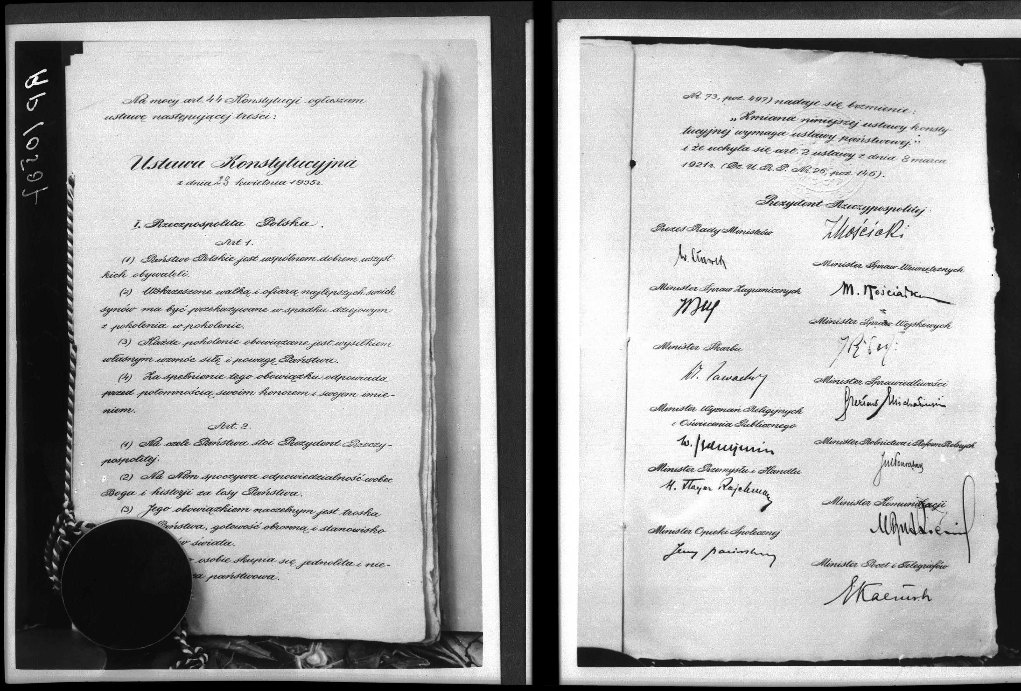 Photocopy of document of April Constitution of Poland